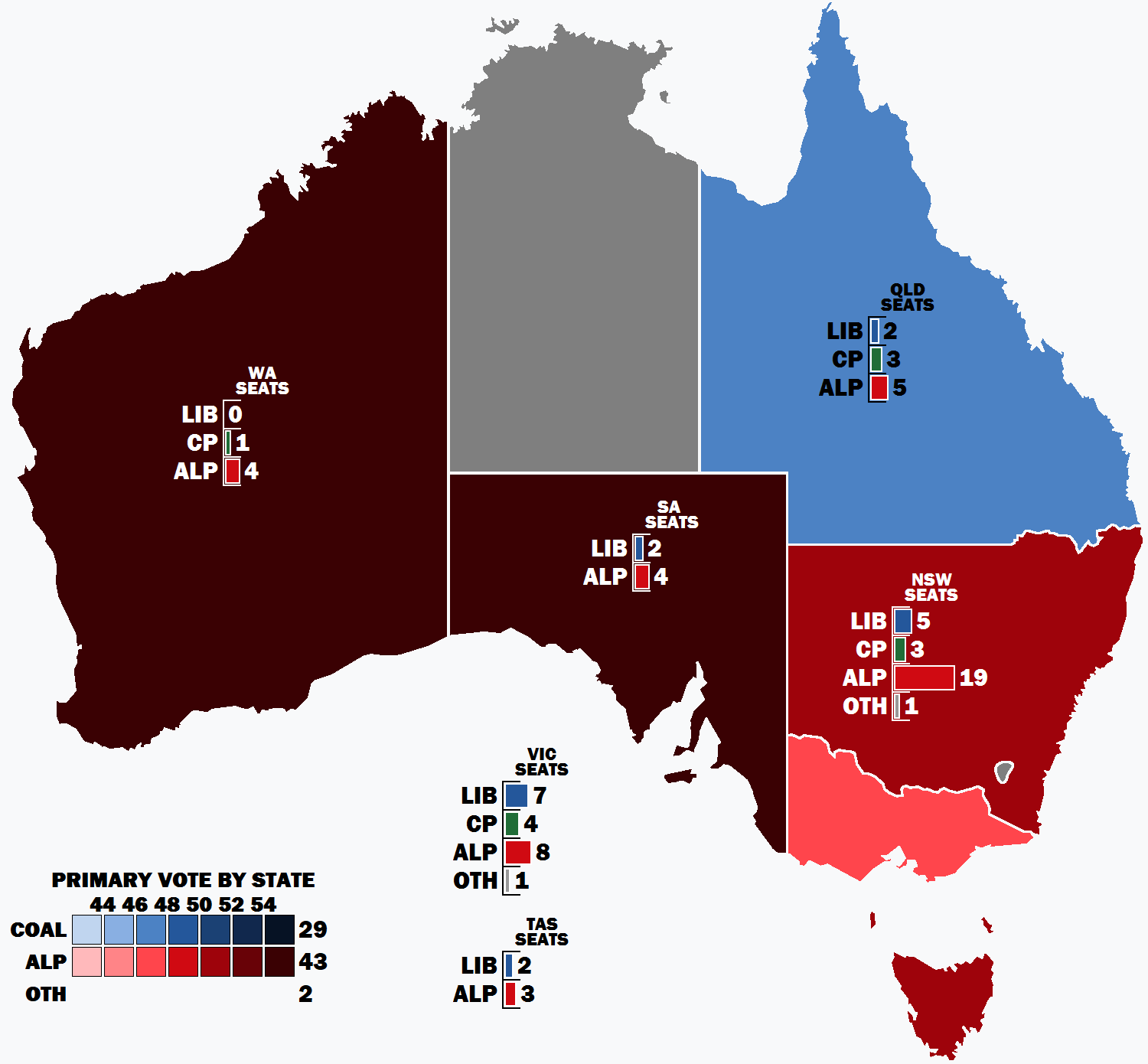 Result of the primary vote by state in the 1946 Australian federal election.